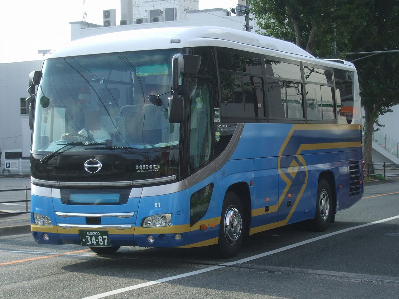 Company:Fukuoka Showa Taxi Use:tour bus Car license:FOF200 KA 3487 Code:81 Chassis manufacturer:Hino Motors Type:Selega HD-S Coachbuilder:J-BUS Location:In Nakagawa City, Fukuoka, Japan.